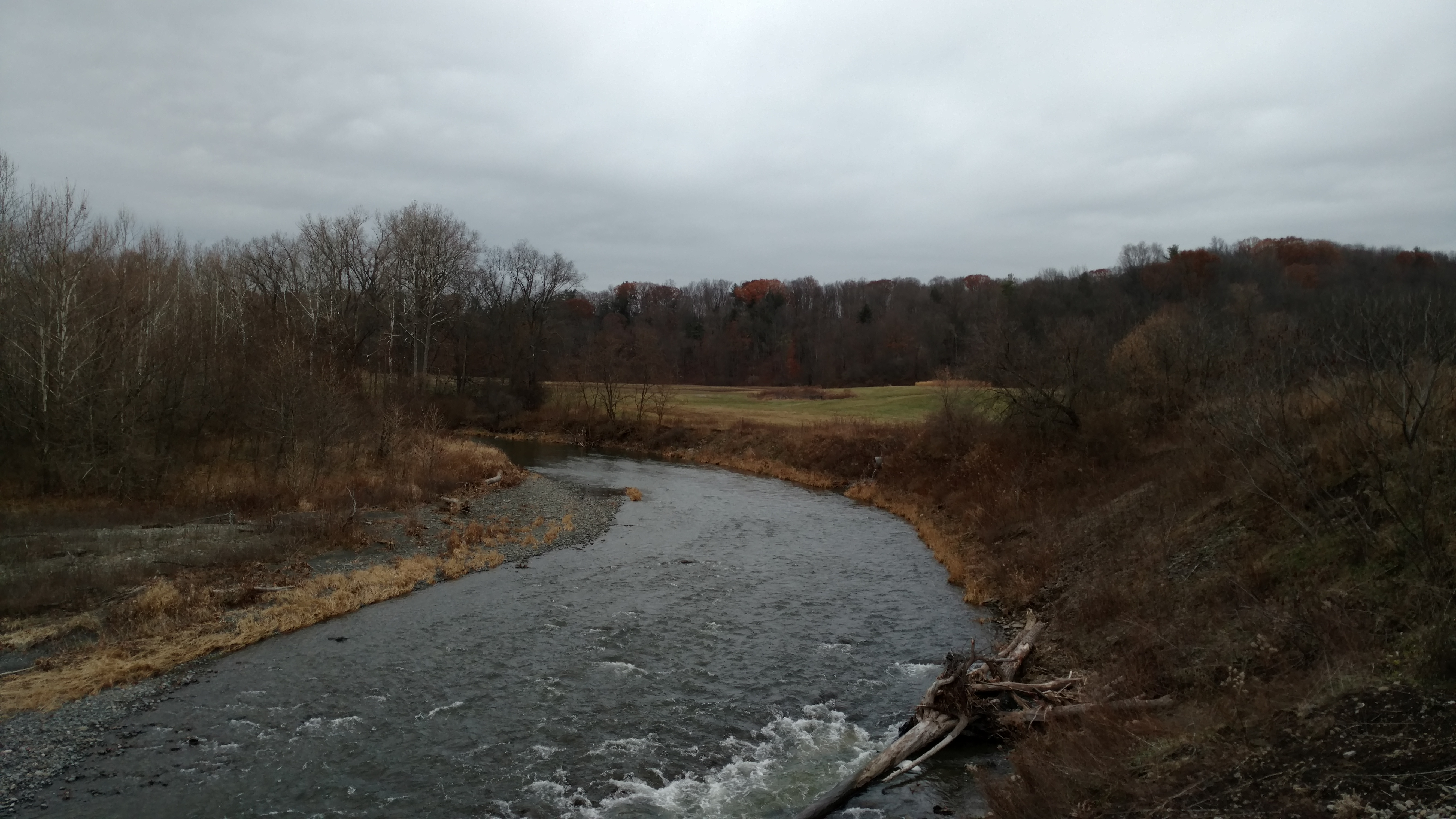 Fall Creek seen from Varna, New York